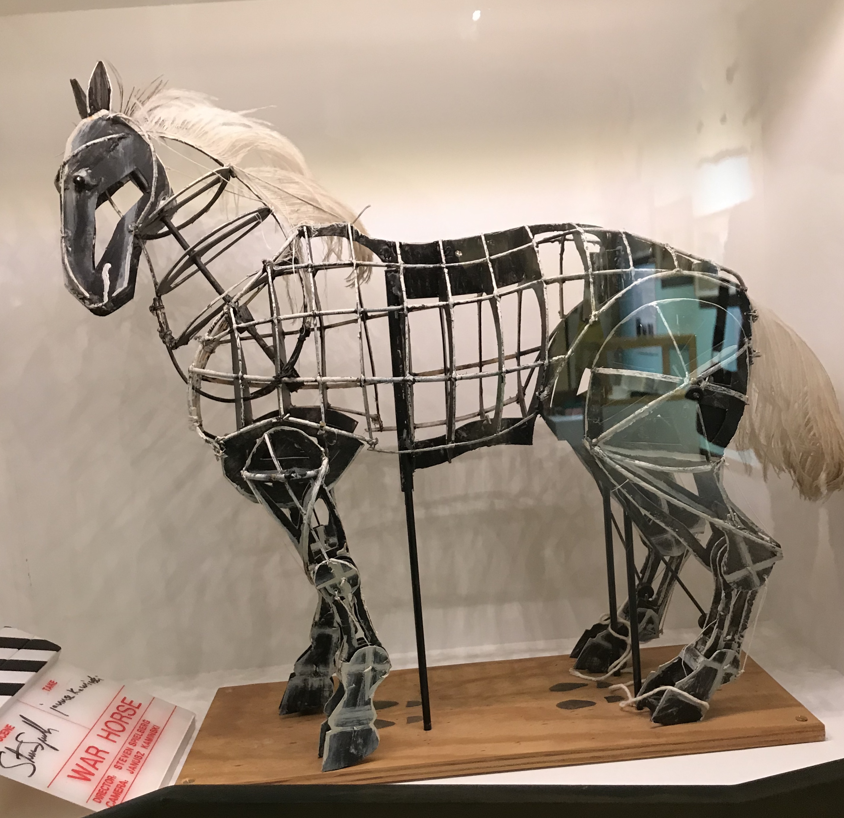 The maquette for 'Joey' from the National Theatre production of 'War Horse'. The puppets were made by Handspring Puppet Company in South Africa and this scale model was a gift to Michael Morpurgo. The maquette was exhibited at the Burton at Bideford Gallery in Bideford, Devon in 2019